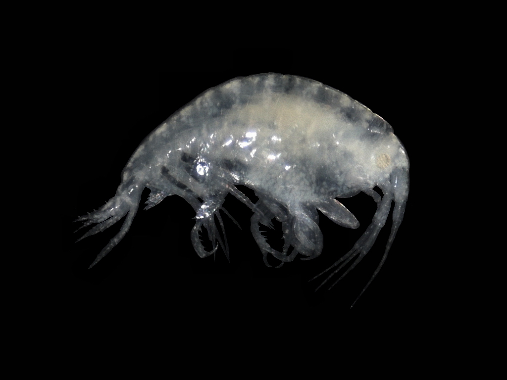 Amphipod taken with an Axiocam (Zeiss) camera mounted on a Zeiss Stemi C-2000 binocular microscope. The amphipod was sampled on the Belgian Continental Shelf in 1997. Length: ~3 mm.